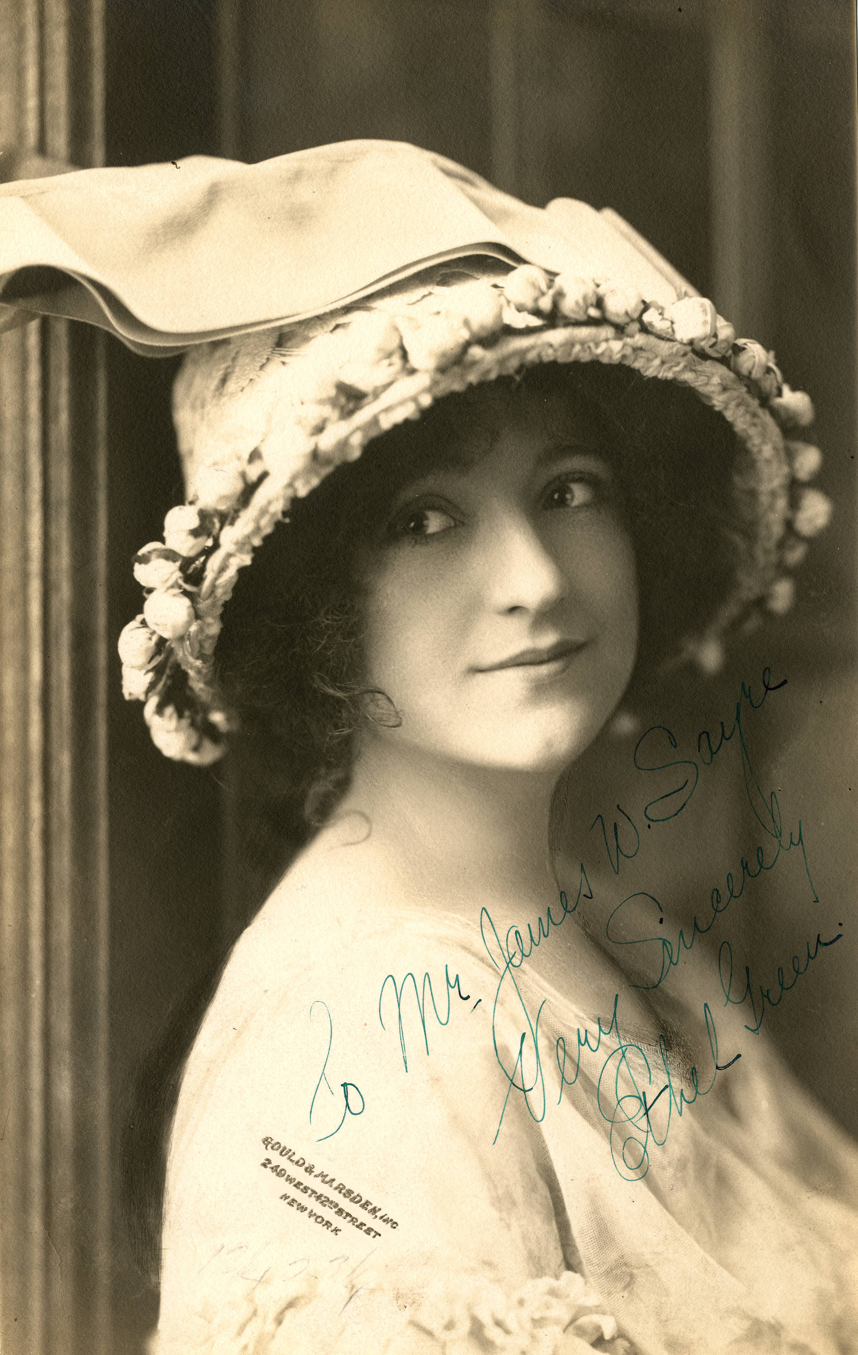 Vaudeville actress Ethel Green. Subjects: vaudeville